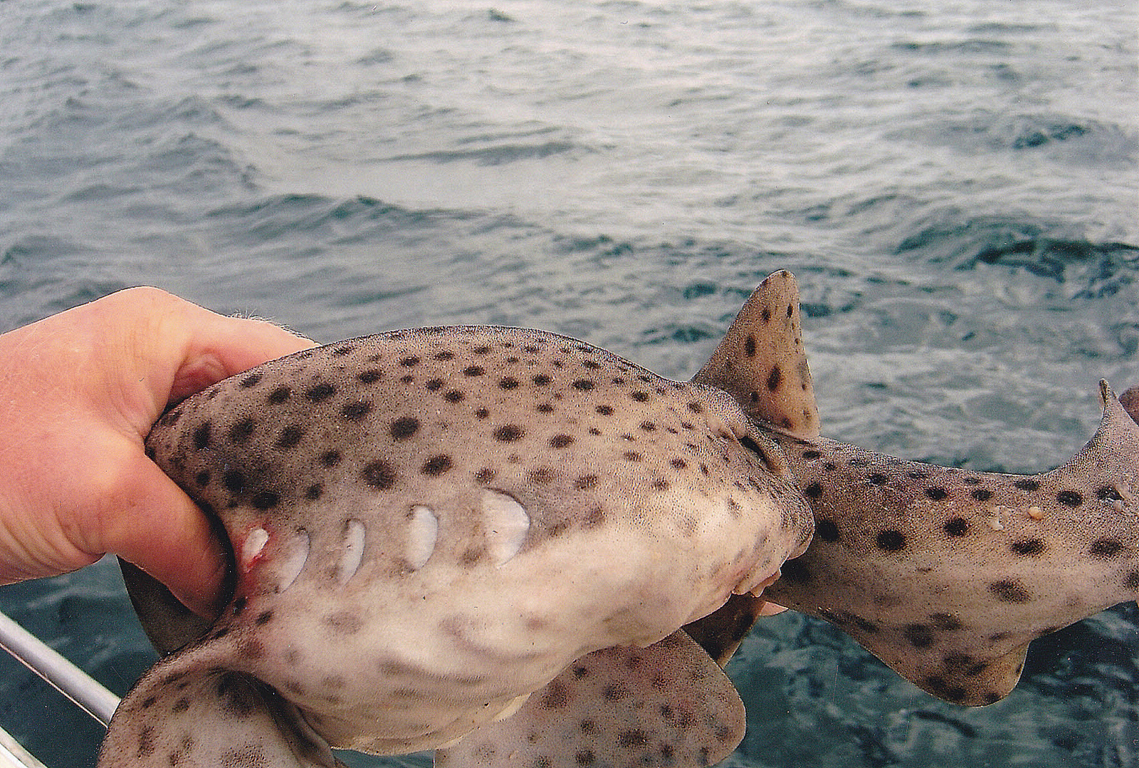 Catfish skin as sandpaper